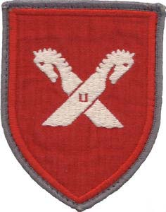 coat of arms of the Bundeswehr (Armed Forces of the Federal Republic of Germany). → Remarks on naming and categorization scheme